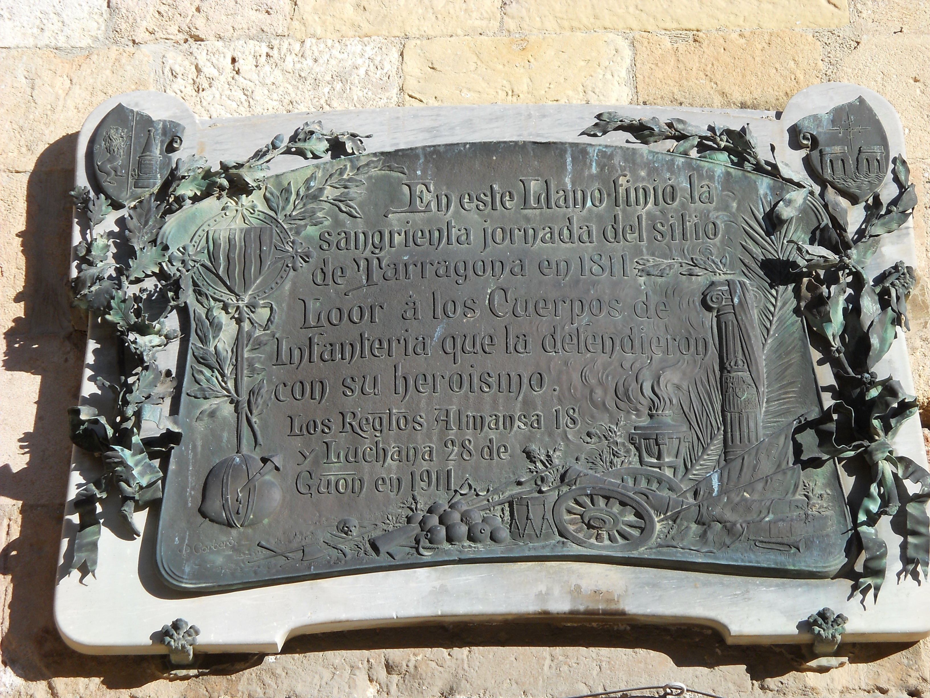 Plaque commemorating the siege of Tarragona of 1811